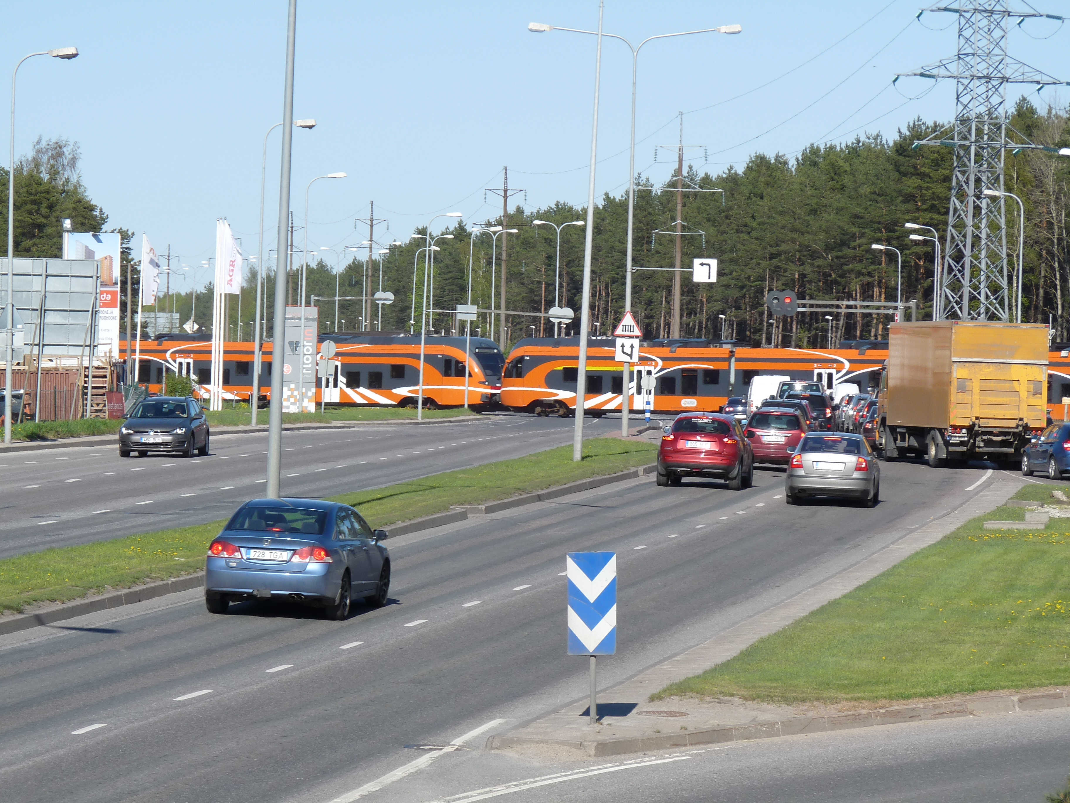 Level crossing in Tallinn, Estonia